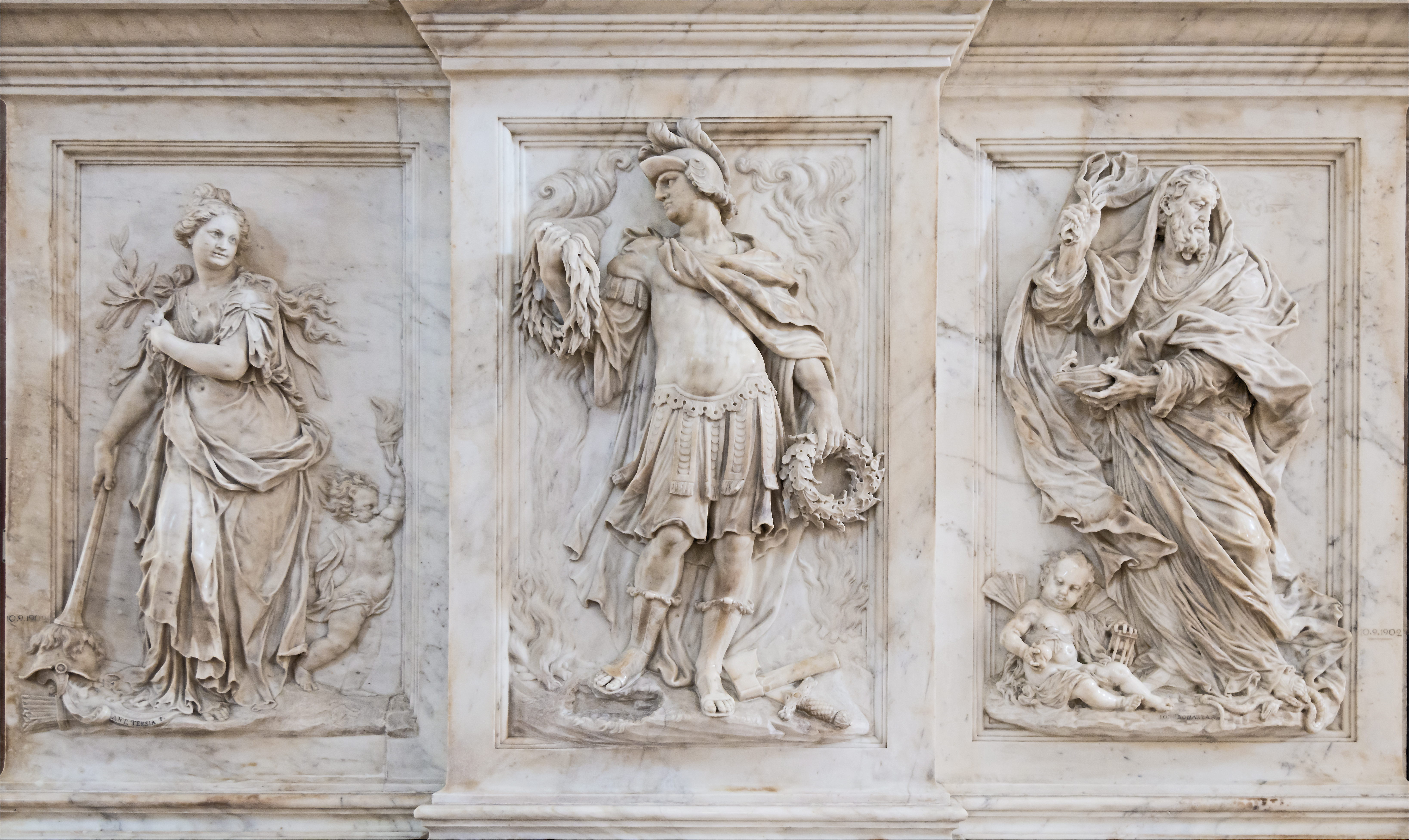 Santi Giovanni e Paolo in Venice, monument of the Valier family. The bas-relief of the base of the monument. The left-wing group, represents: the Peace of Antonio Tarsia, the value of the unknown, and the Time by Giovanni Bonazza.